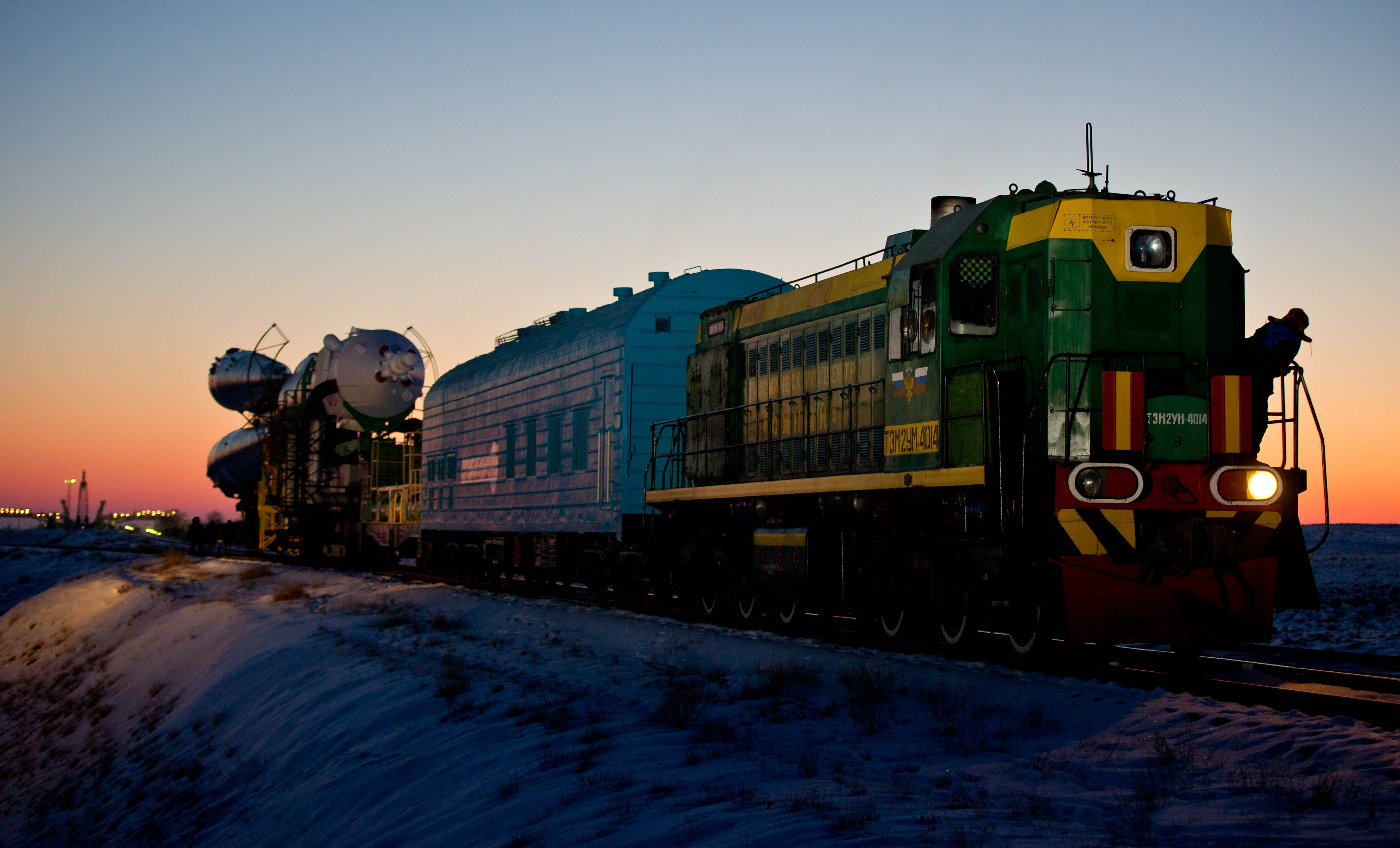 The Soyuz TMA-03M spacecraft is rolled out by train with diesel locomotive TEM2UM-4014 on its way to the launch pad at the Baikonur Cosmodrome, Kazakhstan, Monday, Dec. 19, 2011. The launch of the Soyuz spacecraft with Expedition 30 Soyuz Commander Oleg Kononenko of Russia, NASA Flight Engineer Don Pettit and ESA (European Space Agency) astronaut and Flight Engineer Andre Kuipers is scheduled for 7:16 p.m. local time on Wednesday, December 21.